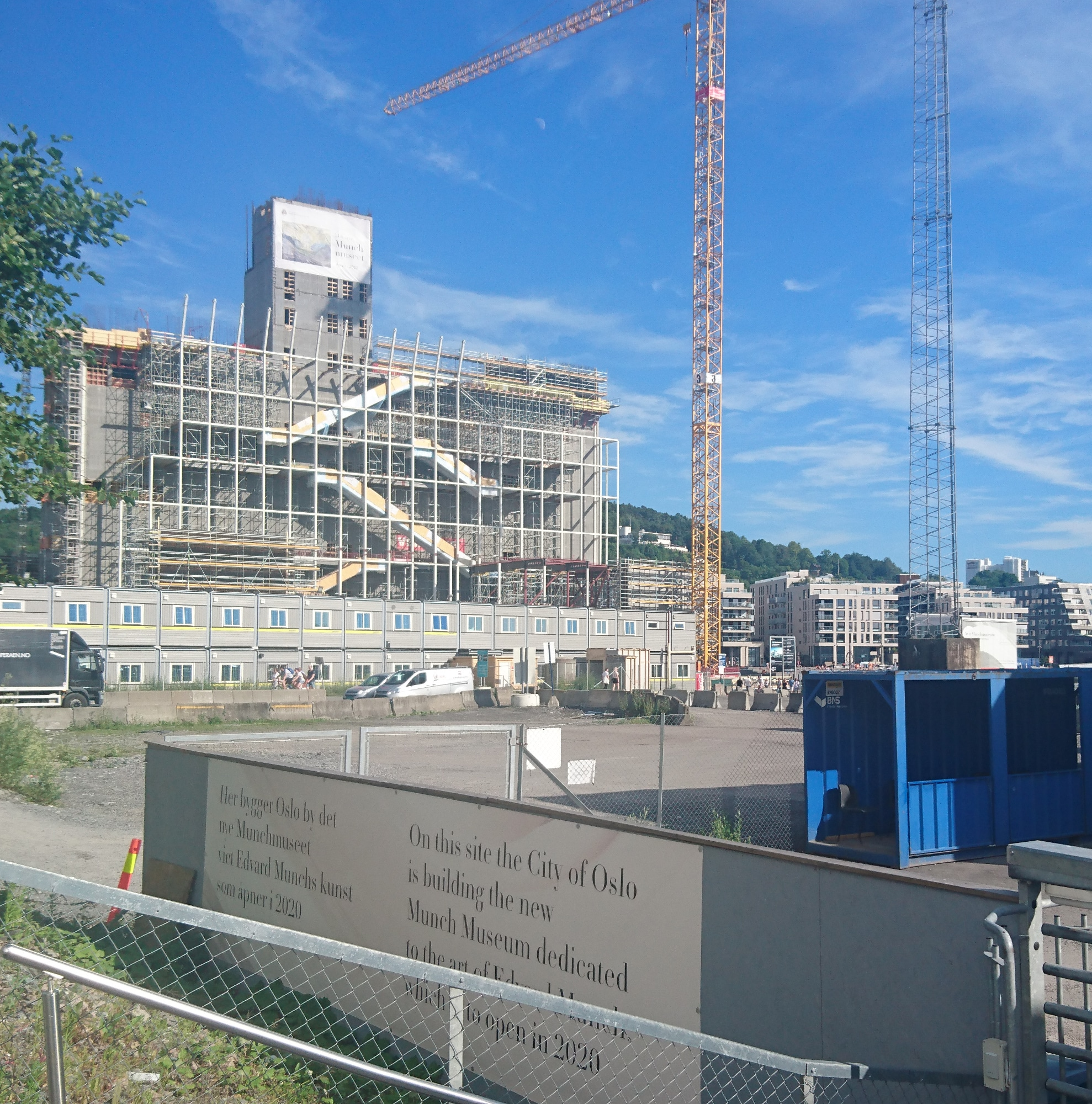 Construction site of the New Munch Museum in the Harbour of Oslo in June 2017